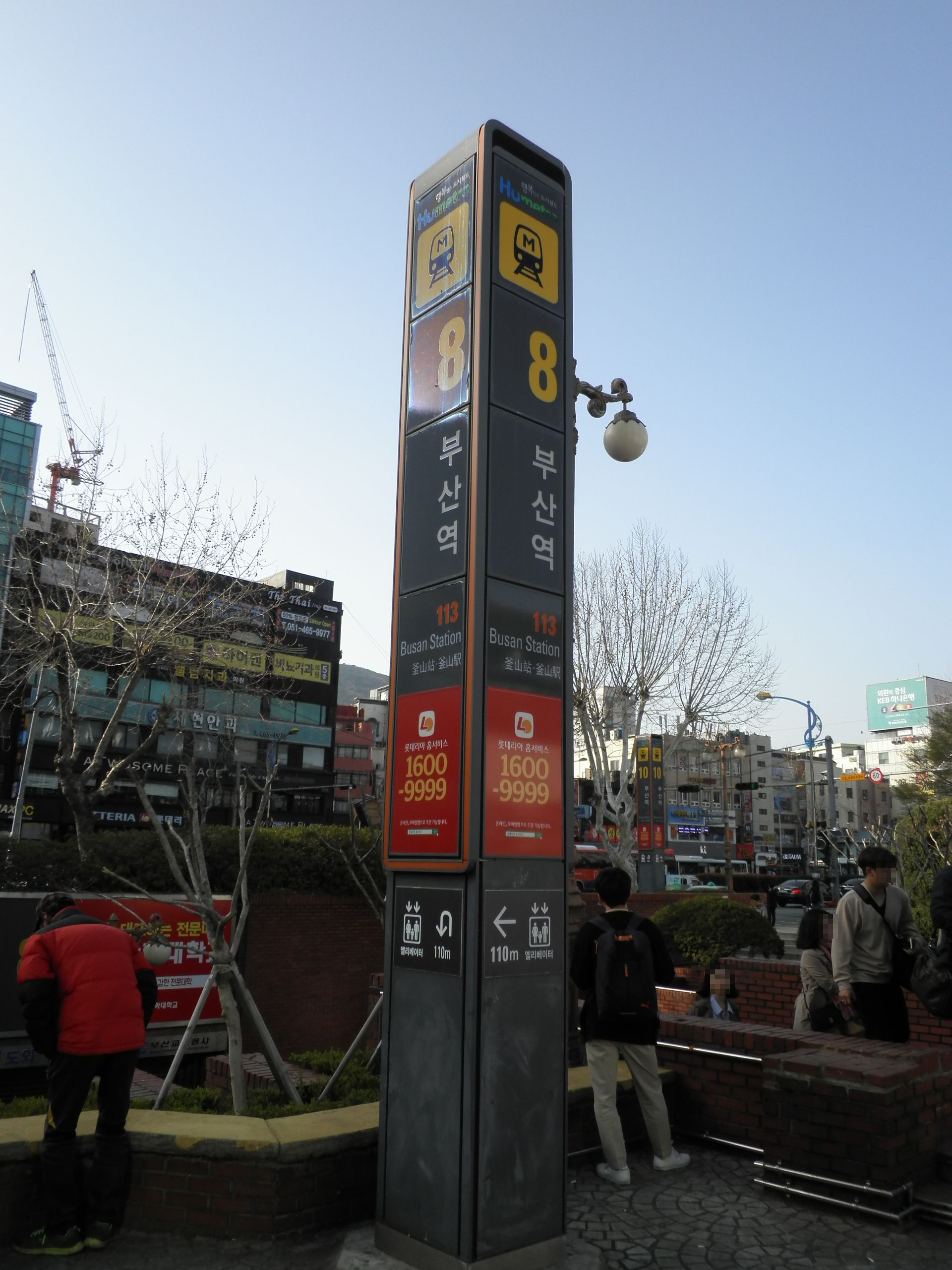 Busan Metro Busan station Exit No.8